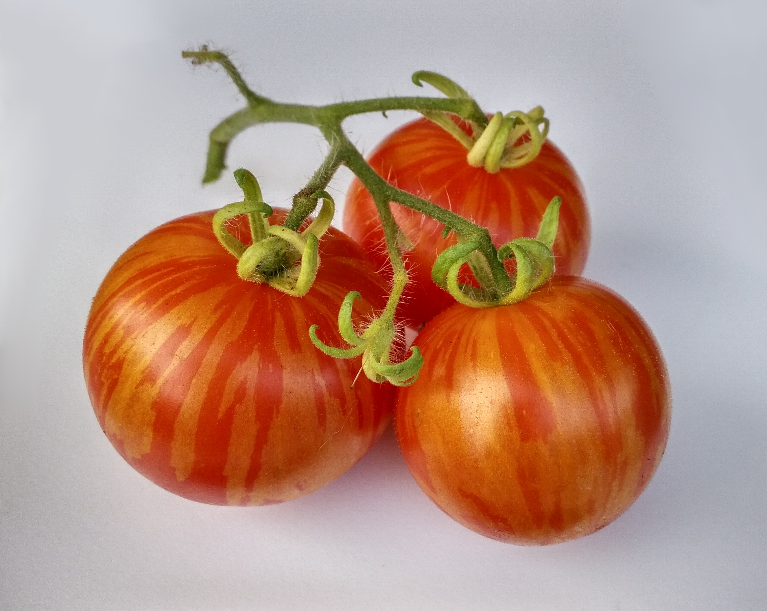 Fruits of the Tigerella tomato. The stripes are clearly visible. The fruits at lower parts of the plant had greener stripes, the fruits at the top had very yellow-ish stripes. Grown on my balcony in summer 2019.